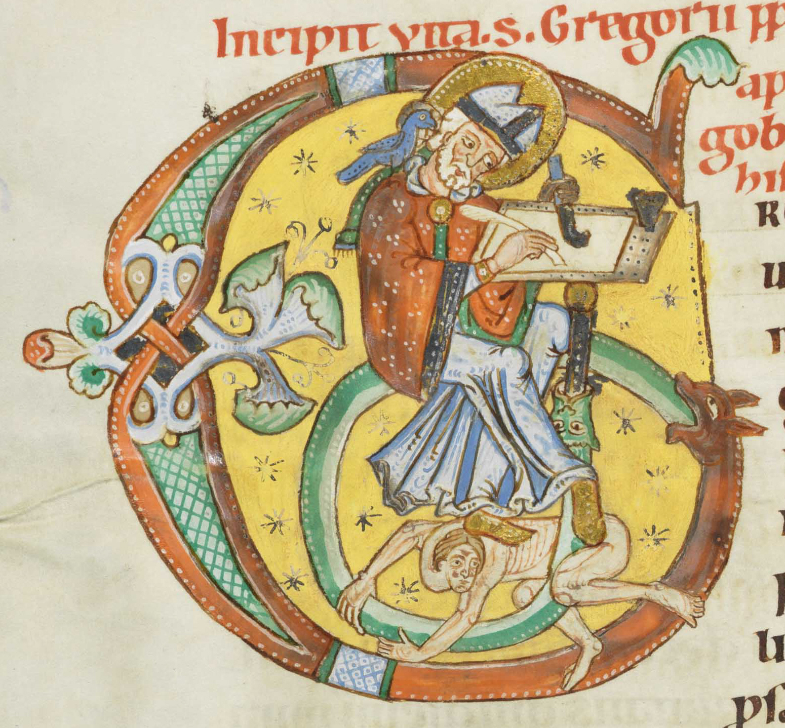 Illumination from the Passionary of Weissenau (Weißenauer Passionale); Fondation Bodmer, Coligny, Switzerland; Cod. Bodmer 127, fol. 172v